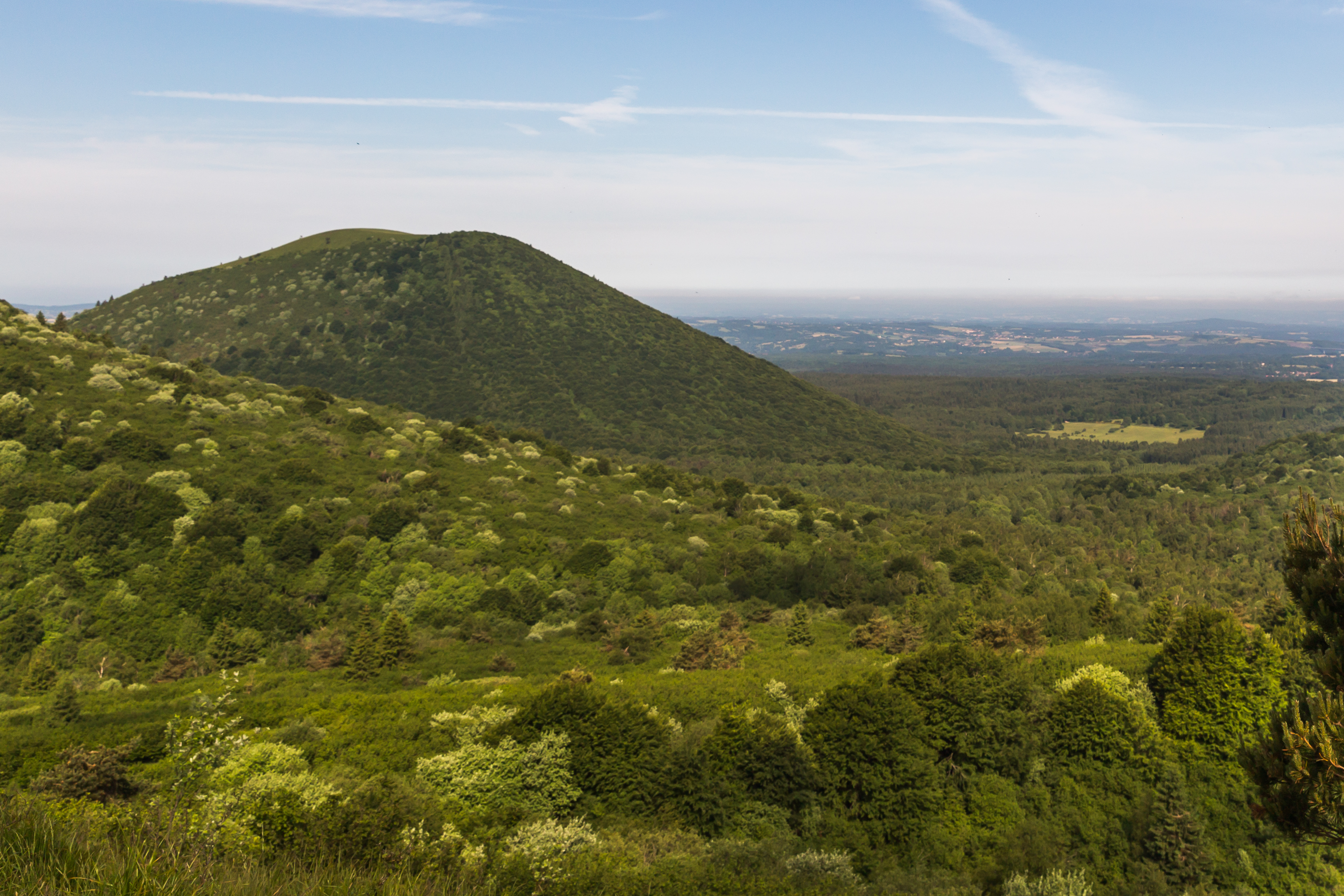 Eastern slope of puy de Côme from the puy Pariou, France.